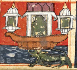 ocean of 14 auspicious dreams in Jainism